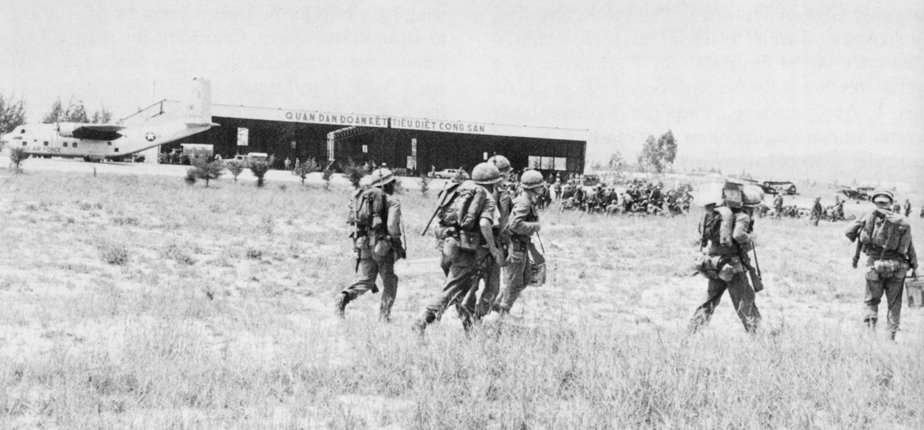 Marines from the 3d Battalion, 4th Marines have just debarked from helicopters at Phu Bai. The troops in the background, ready to embark in the same helicopter for the return trip to Da Nang, are from the 2d Battalion, 3d Marines.